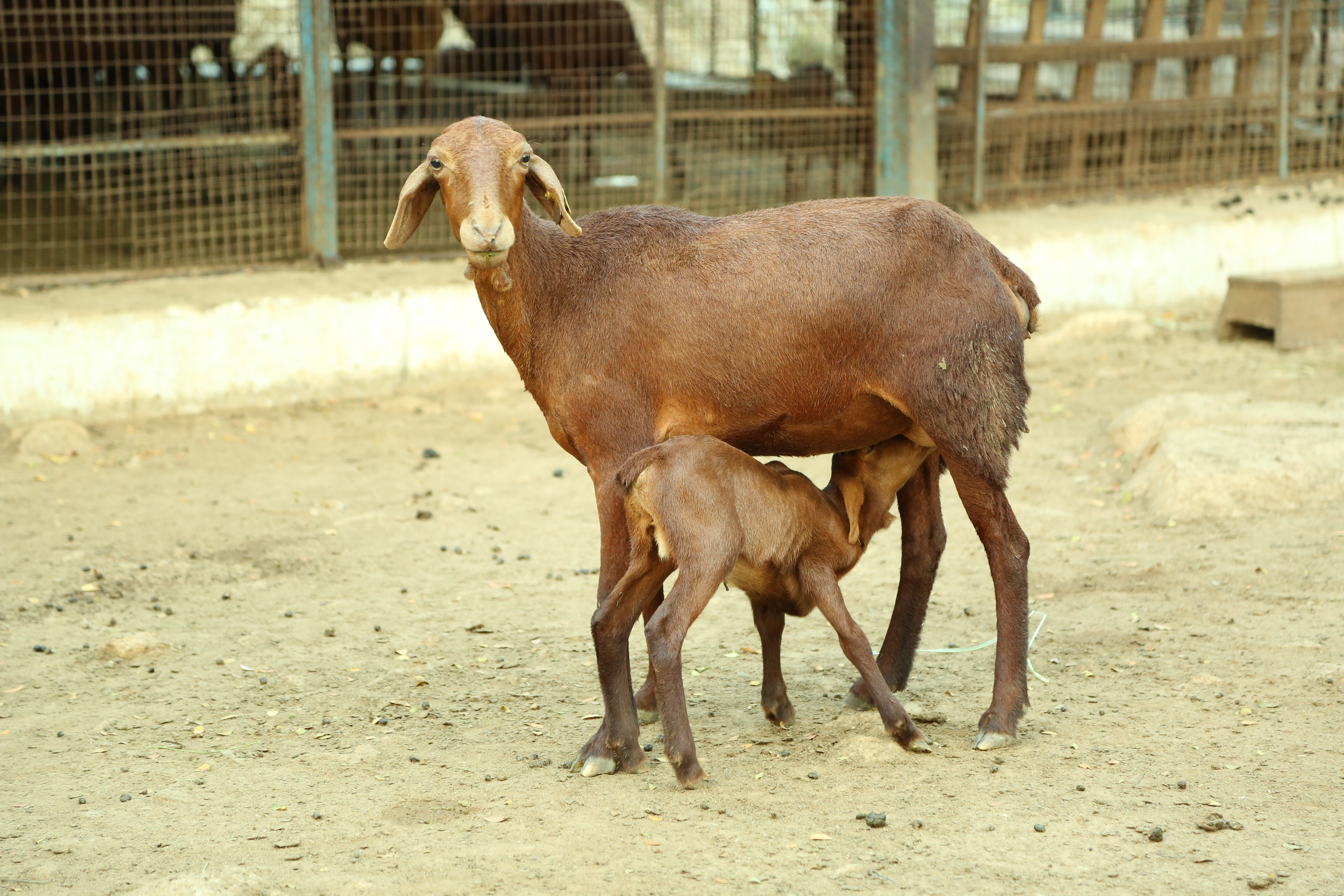 Ewe with suckling lamb